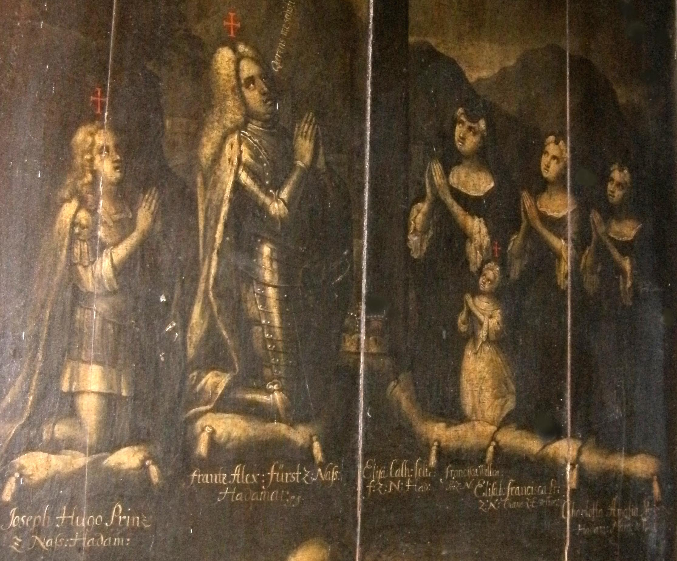 Praying sovereign Franz Alexander of Nassau-Hadamar and his family